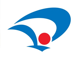 Flag of Daisen Akita